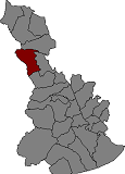 Location of Sant Esteve Sesrovires in Baix Llobregat